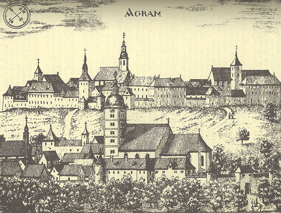 Kaptol and Gradec in Zagreb (Croatia)